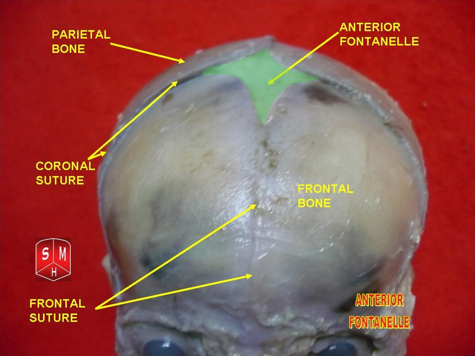 Anatomical preparation